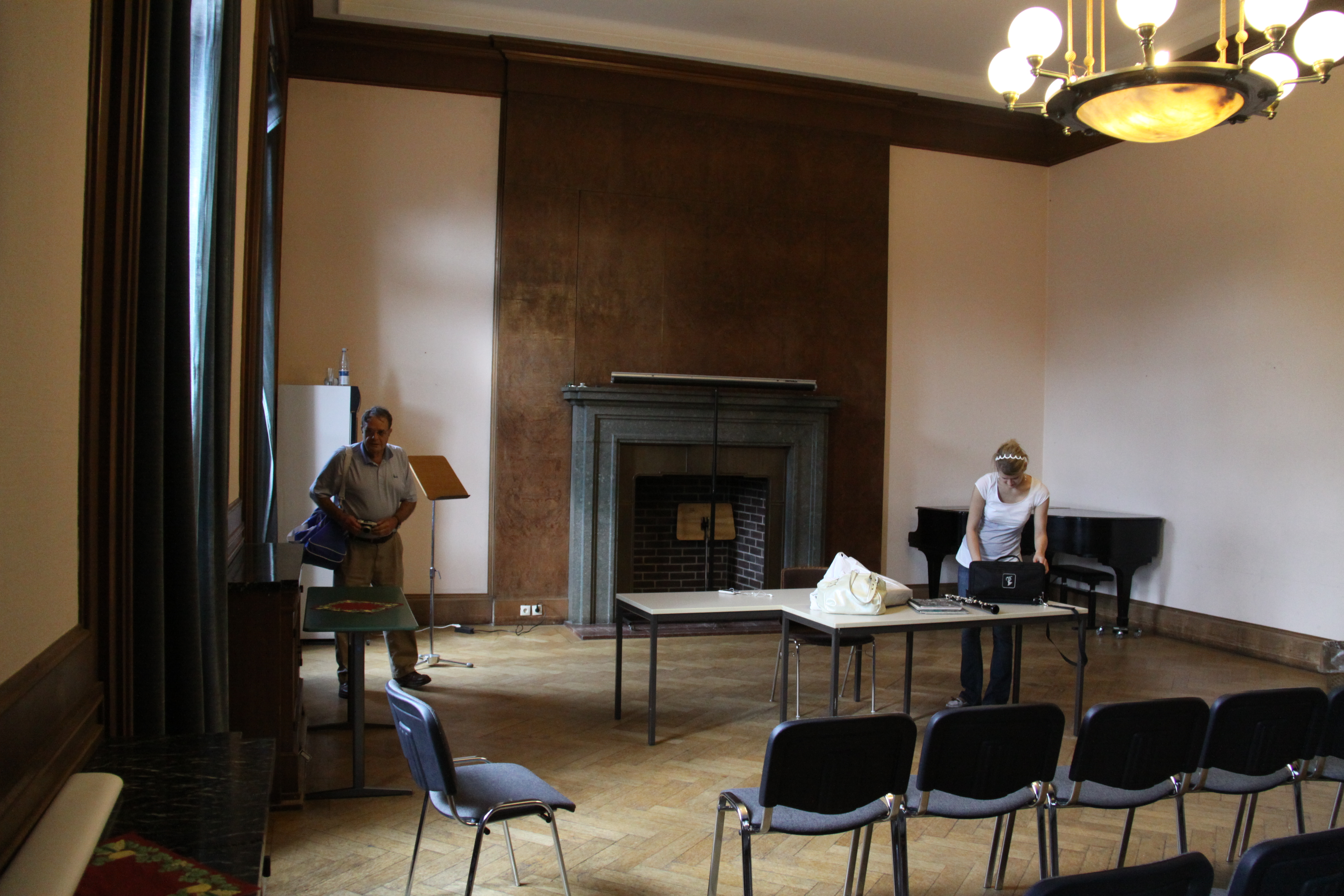 Room where the 1938 Muich accord was signed. Note the original fireplace and overhead lamp.